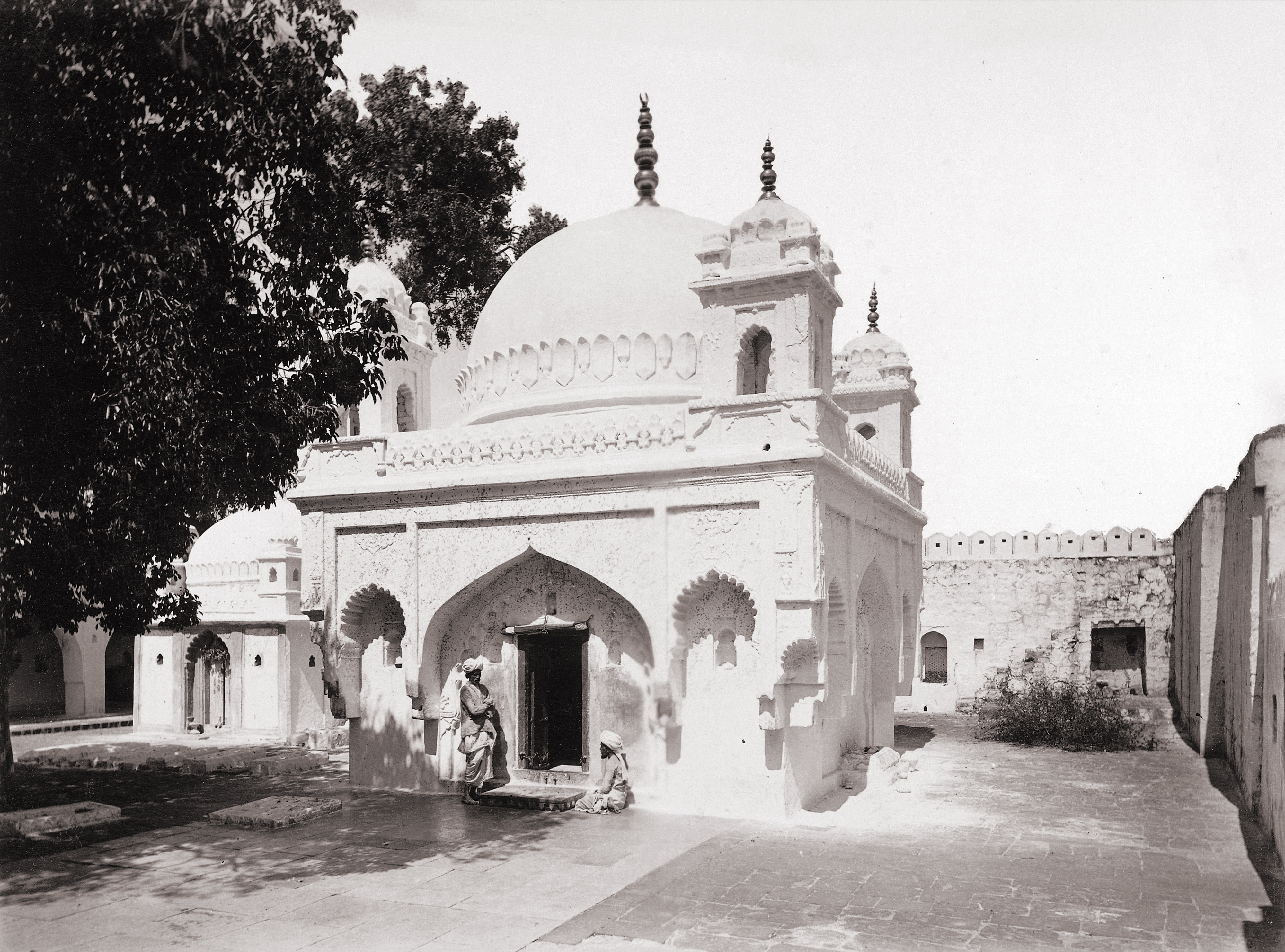 Dargah of Zar Zari Baksh from the inner courtyard, from the Curzon Collection: 'Views of Caves of Ellora and Dowlatabad Fort in H.H. the Nizam's Dominions' taken by Deen Dayal in the 1890s. Rauza or Khuldabad. Zar Zari Bakhah’s tomb contains many relics including a circular steel mirror on a pedestal presented by Tana Shah of Golconda.